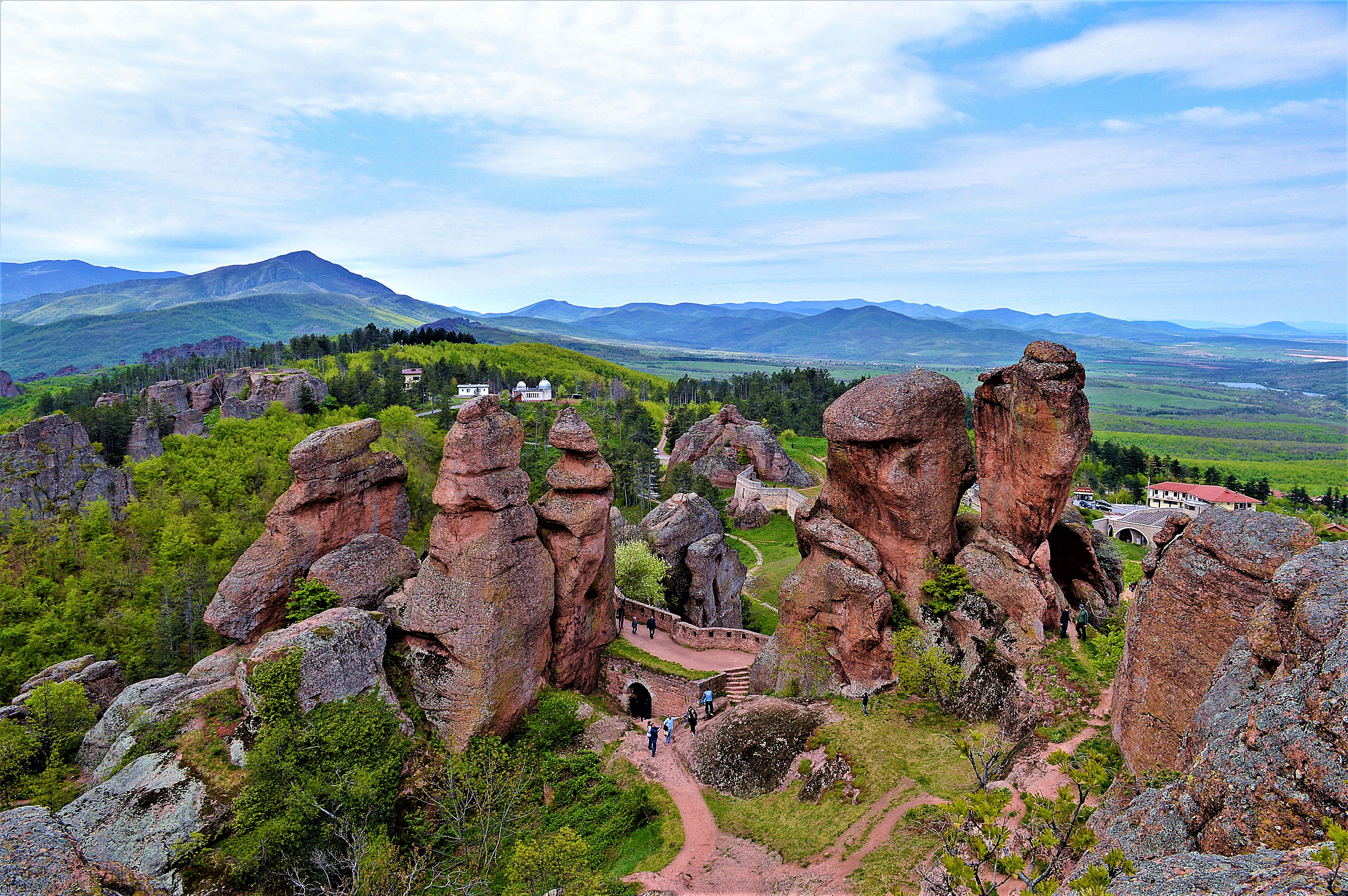 Belogradchik Rocks are group of sandstones up to 200 m high, located near the town of Belogradchik.